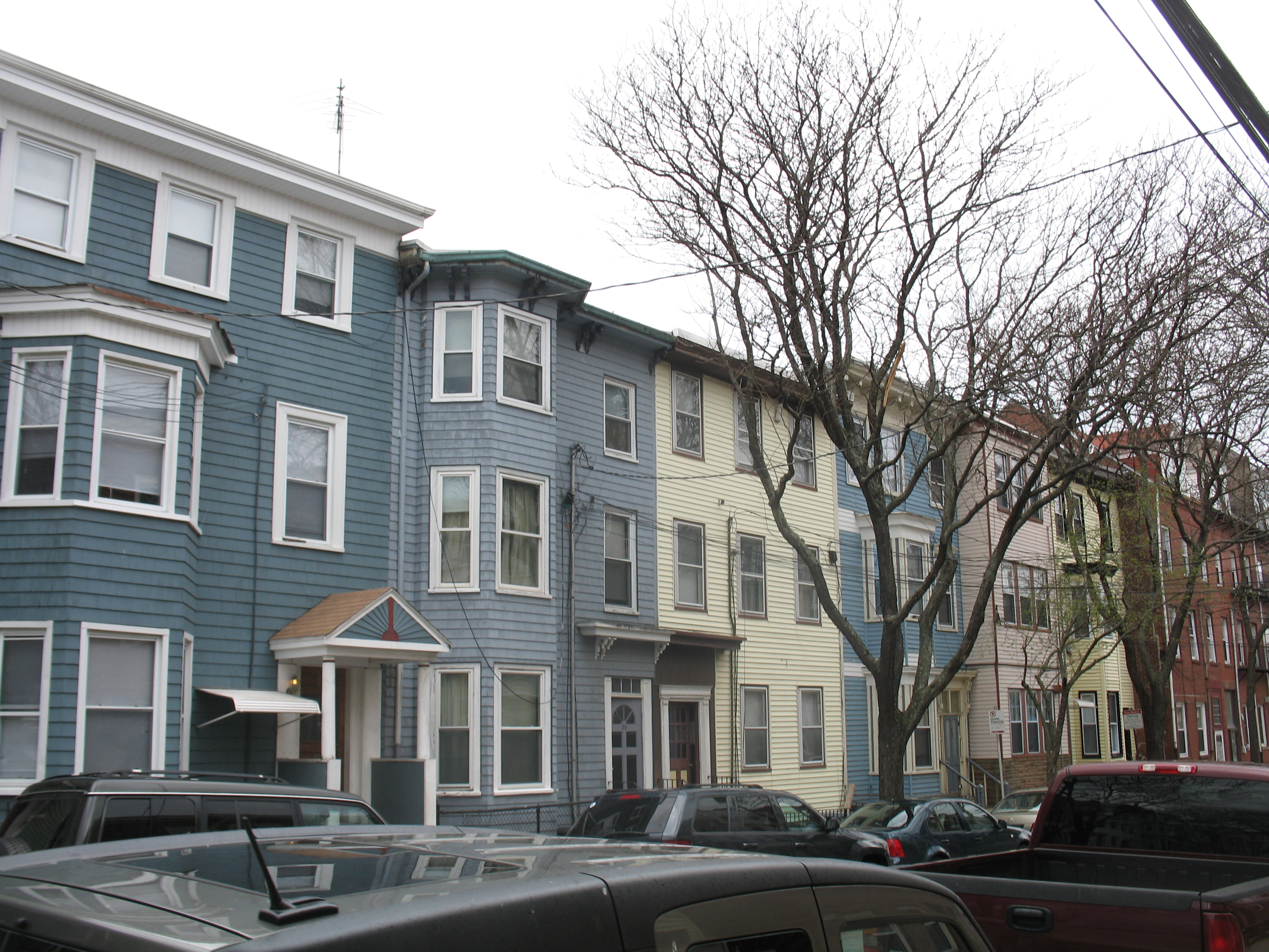 Houses on Cottage Street, East Boston